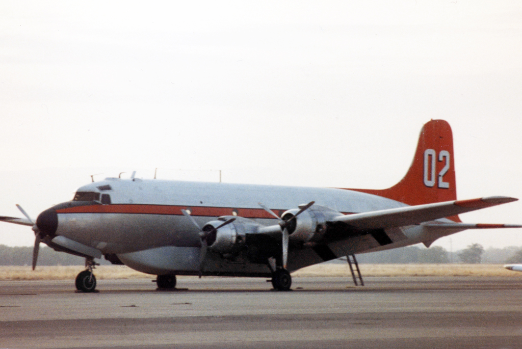 Douglas C-54A (DC-4) tanker N11712 of Aero Union at Chico airfield California in 1992